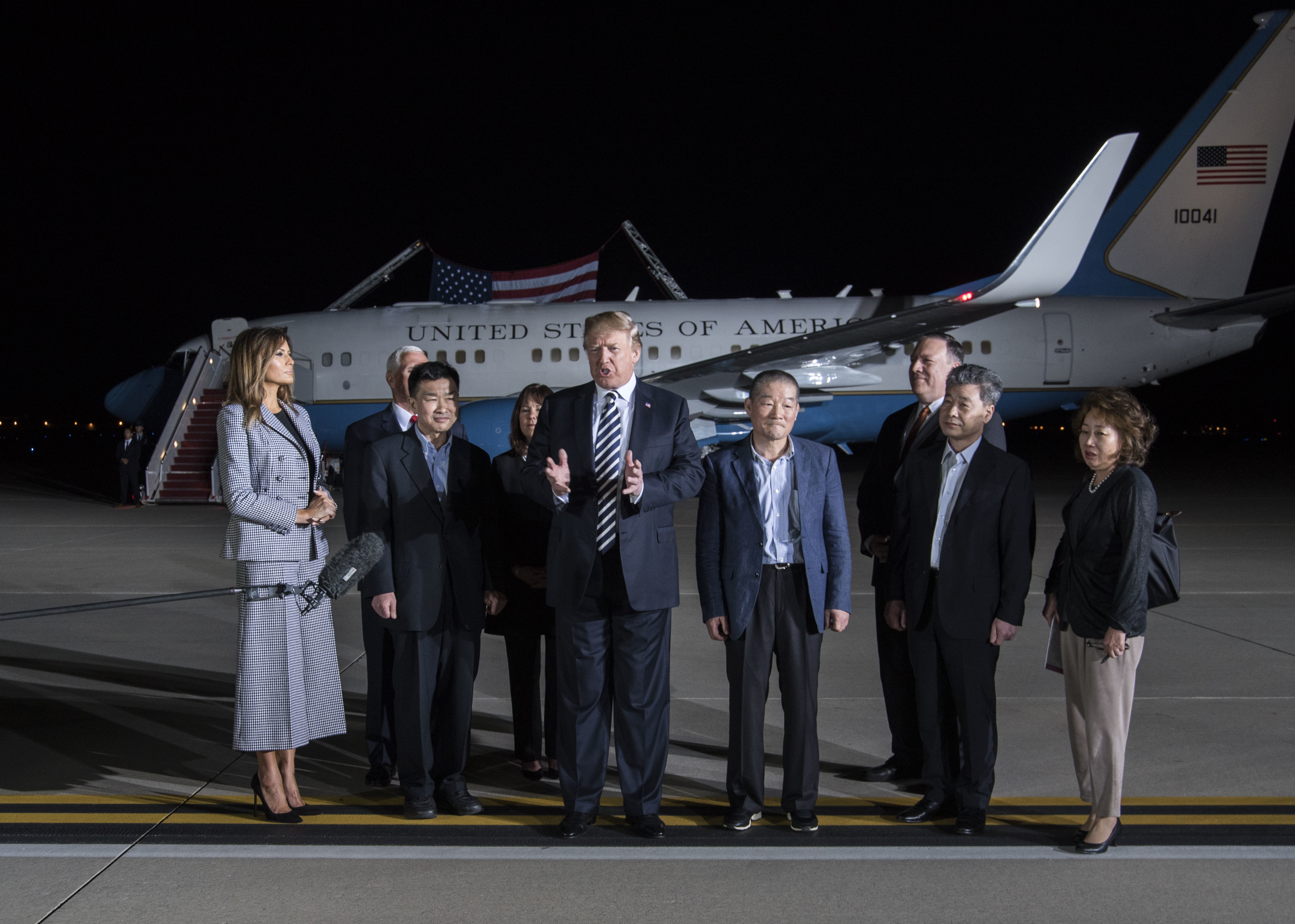 President Donald J. Trump speaks alongside three American detainees who arrived at Joint Base Andrews, Md., from North Korea on May 10, 2018. Kim Dong Chul, Kim Hak-song and Kim Sang Duk arrived on a C-32 high-priority personnel transport at approximately 2 a.m. after being released from a North Korean prison May 9 during Secretary of State Mike Pompeo’s most recent visit to Pyongyang. (U.S. Air Force photo by Staff Sgt. Jordyn Fetter)